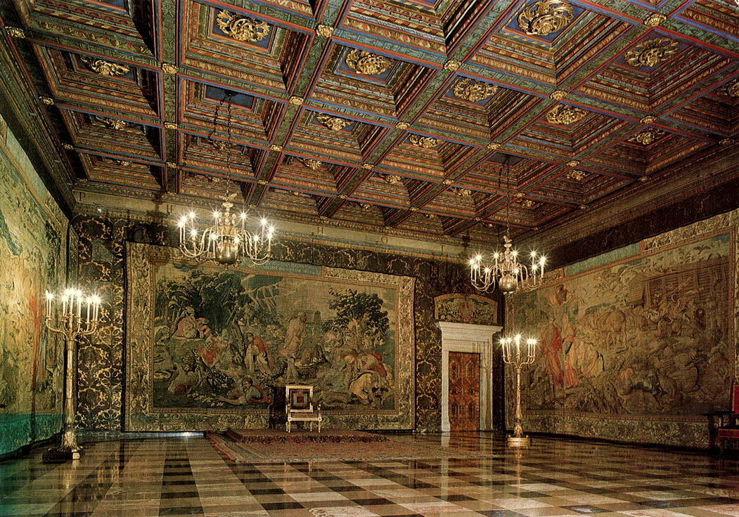 Wawel